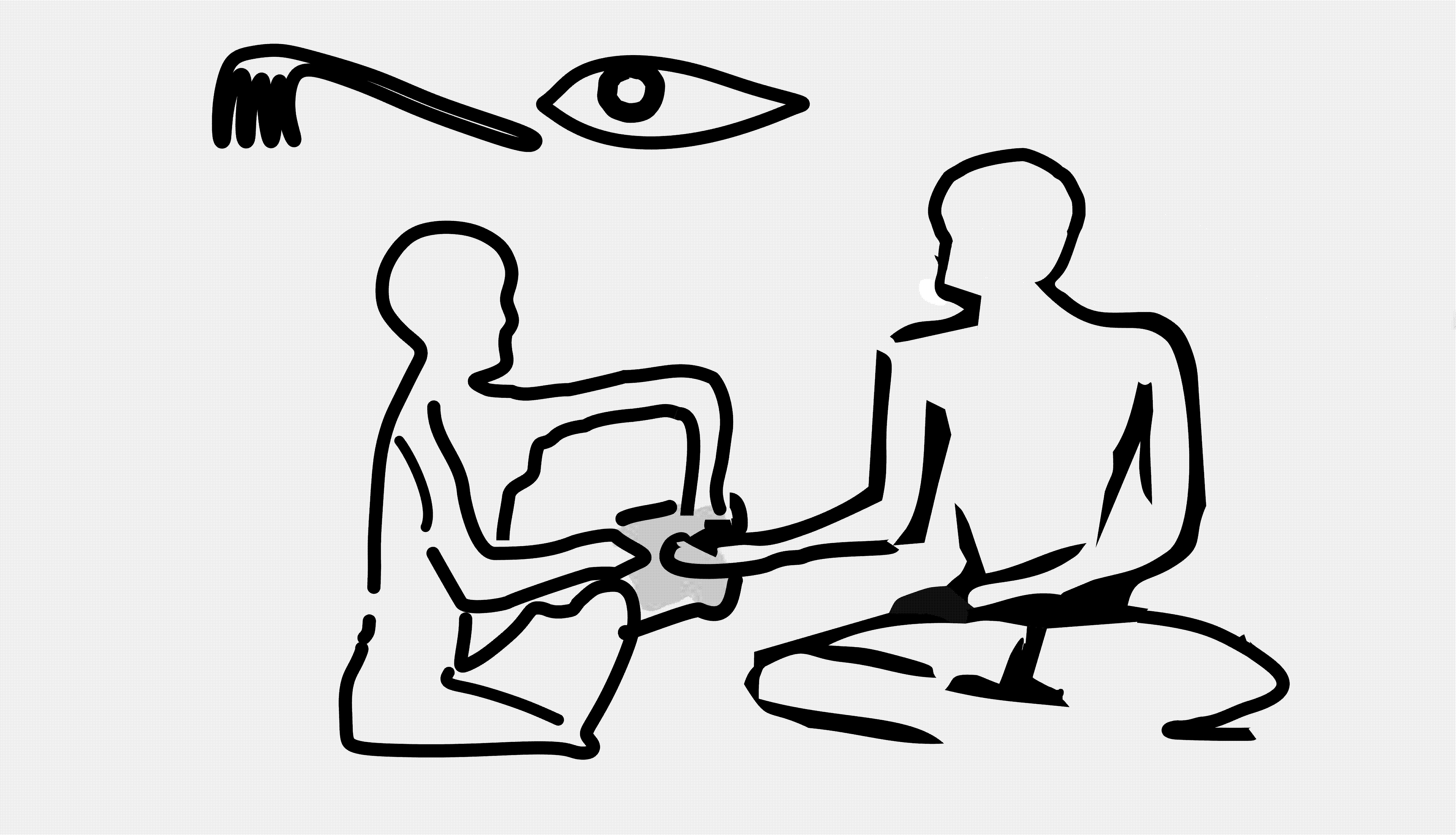 A manicurist at work on a client's nails. The term jrw anwt "manicurist" (Hannig, 188) is included for reference. Author's work, based on relief in the tomb of Niankhkhnum and Khnumhotep at Saqqara. 5th Dynasty, ancient Egypt.